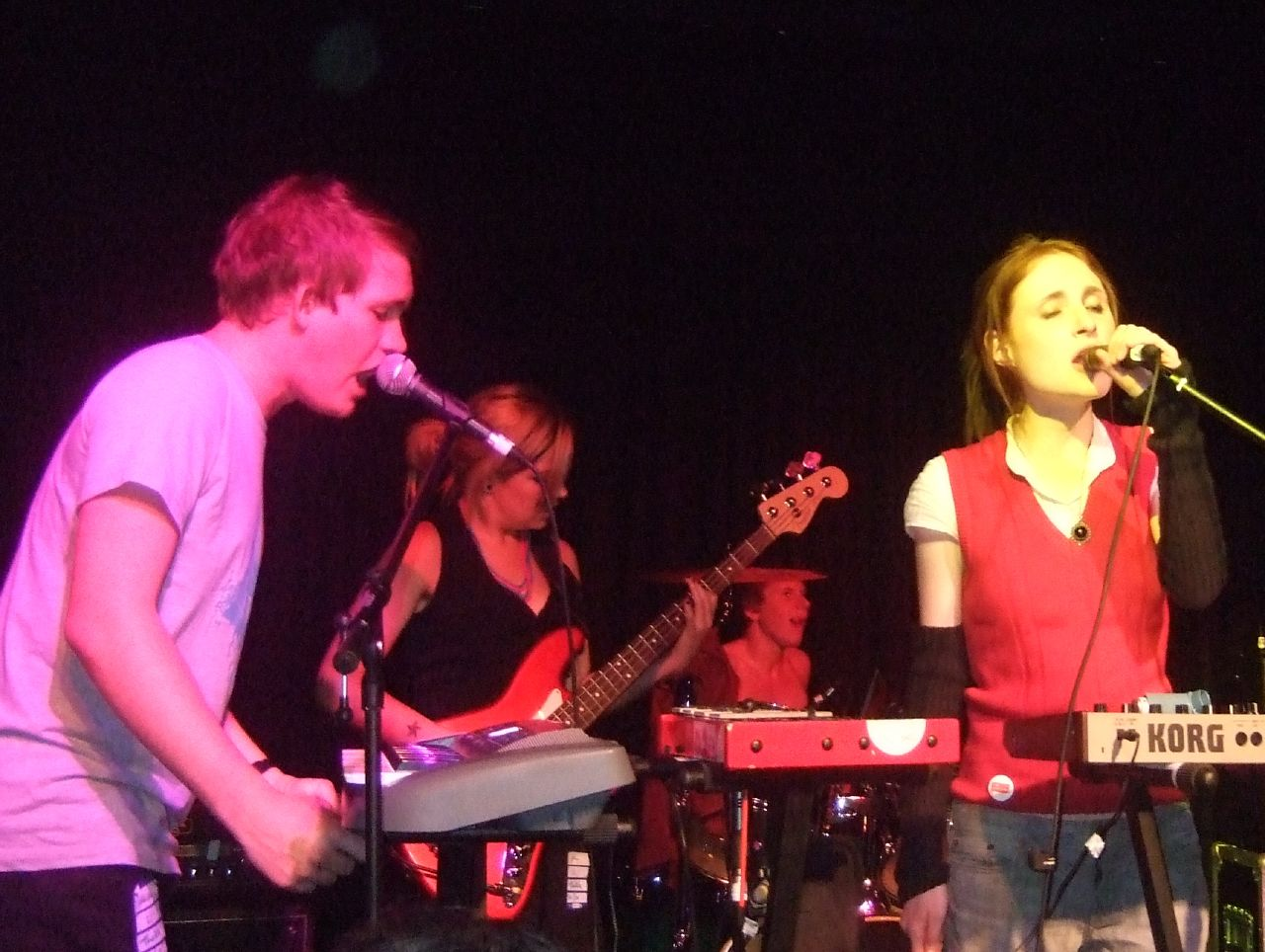 Los Campesinos! Bristol Thekla 10th October 2007 Gareth, Ellen, Ollie, Aleksandra